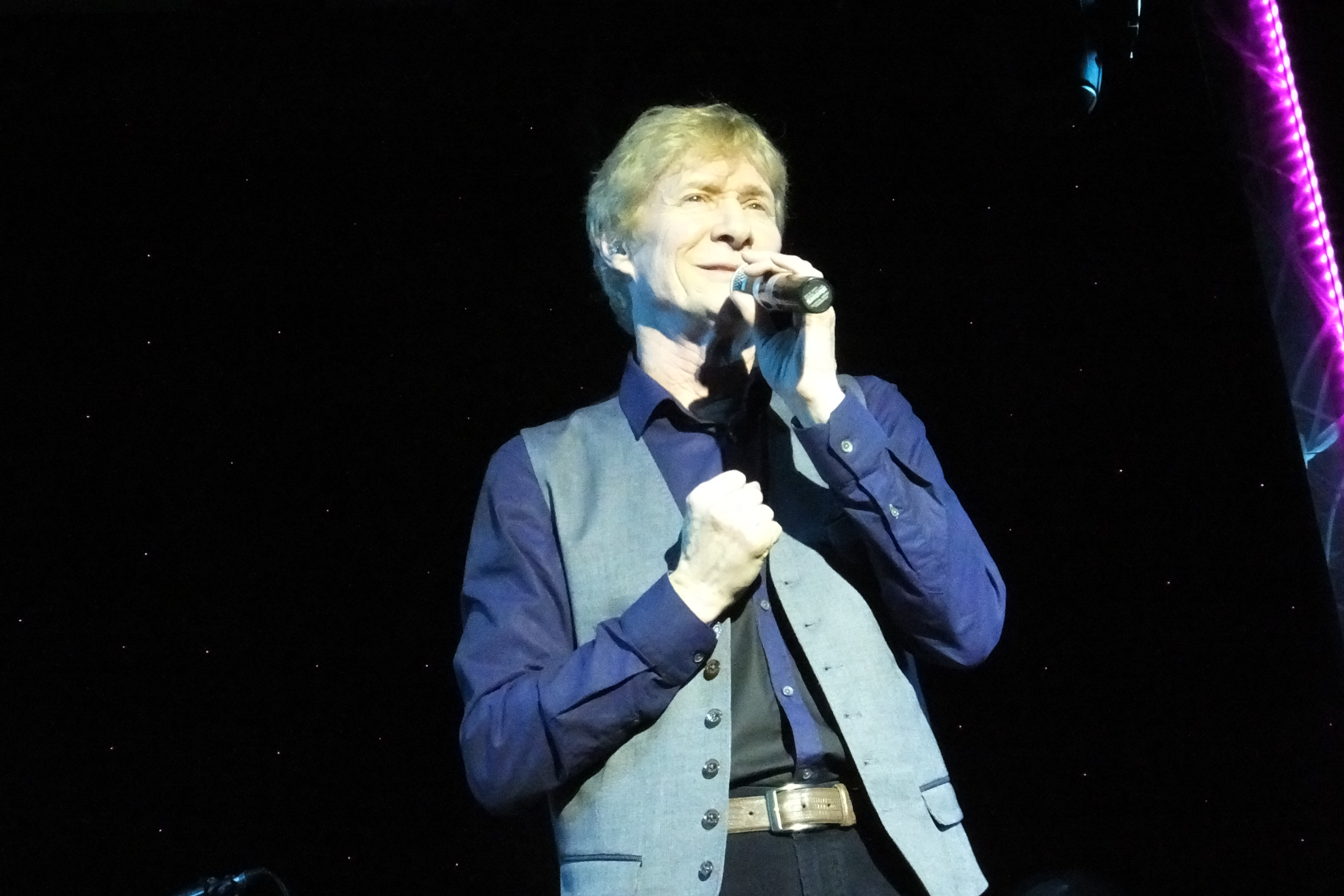 Paul Jones in concert with The Manfreds 2015